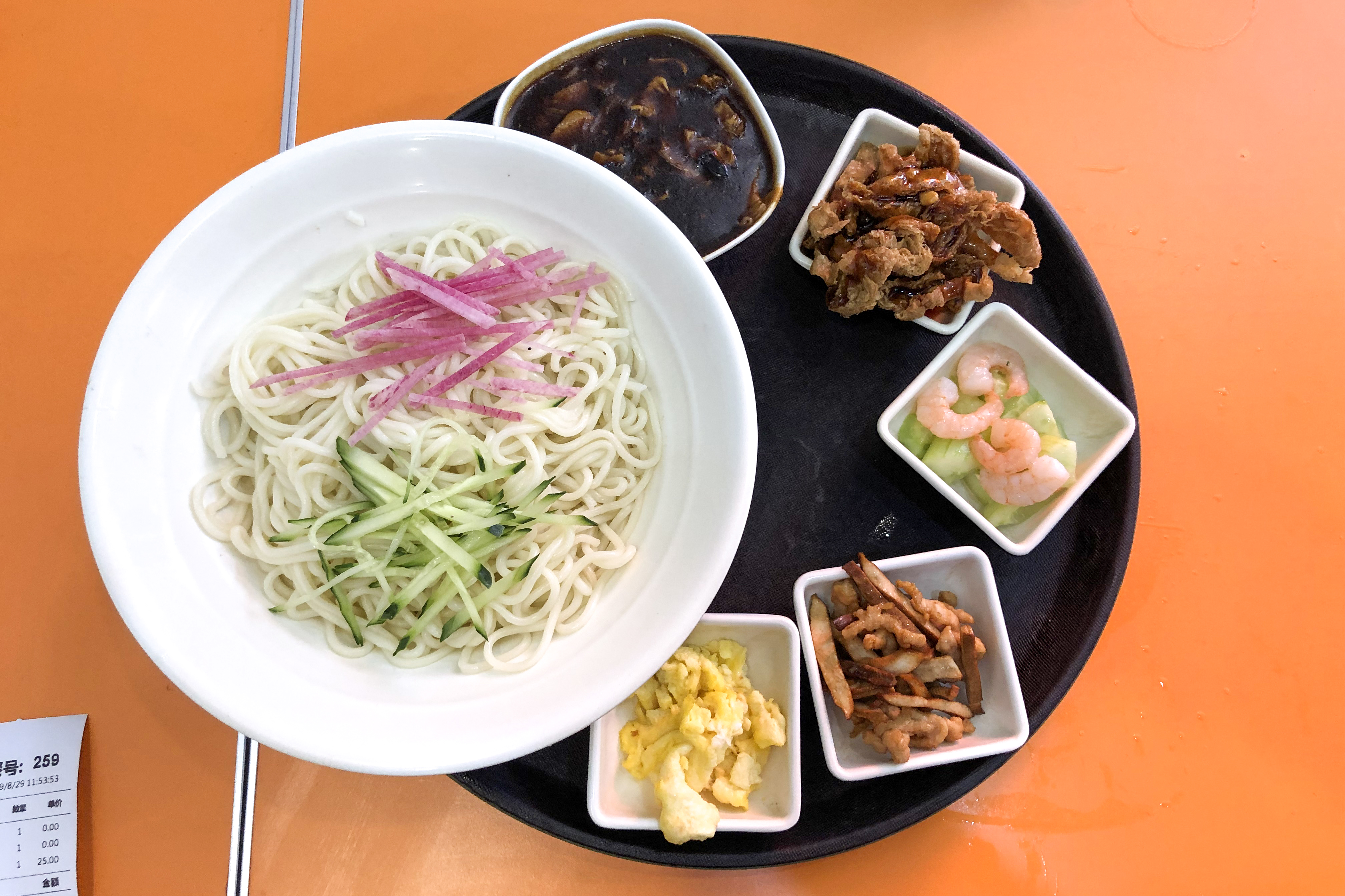 Not that so-called "lo mein", but this one is really rare in Beijing. This noodle dish, whose toppings include scrambled eggs, smoked tofu, prawn and gluten slices in sweet and sour sauce, is commonly eaten for celebrations in Tianjin...